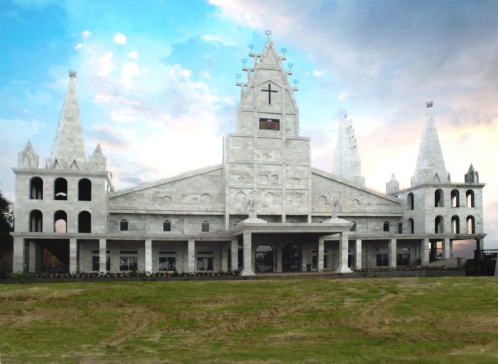 Temple Thlalâk Solomon's Temple, Aizawl, Mizoram, India